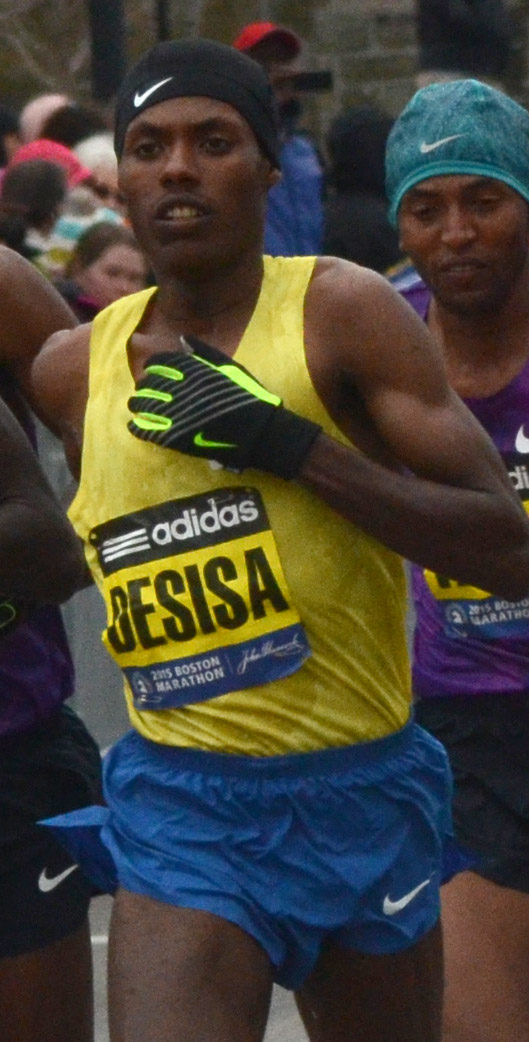 Male winner of 2015 Boston Marathon approaching halfway point